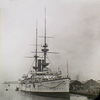 AWM caption : "c. 1900. Starboard bow view of the Majestic class battleship HMS Mars during the period 1895 to 1903. (Original glass lantern slide housed in AWM Archive Store) (Formerly Y006/09/07)"